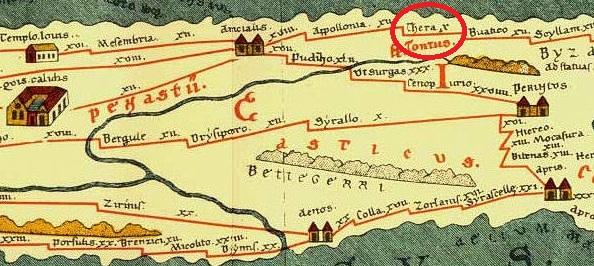 Part of Tabula Peutingeriana showing Eastern Moesia Inferior, Eastern Dacia and Thrace, 1-4th century CE. Facsimile edition by Conradi Millieri, 1887/1888